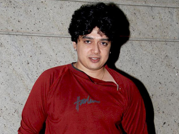 Harish Kumar at Santosh Singh's son's 1st birthday bash .